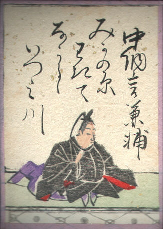 A portrait of Chū-nagon Kanesuke; illustration from an uta-garuta playing card for Hyakunin Isshu, created in the Edo period.